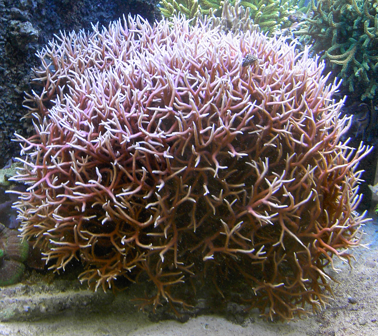 Seriatopora hystrix, commonly known as thin birds nest coral.